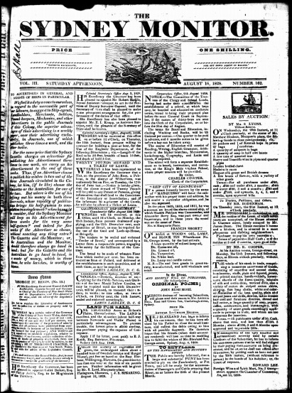 Front page of the Sydney Monitor, Saturday 16 August 1828